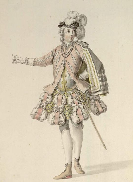 Arminio by [Johann Adolf Hasse] (staged Dresden 1753) Costume designs by Francesco Ponte (b. 1725) - Segeste (sung by Angelo Amorevoli) fig. 3 of 7 (+title page)